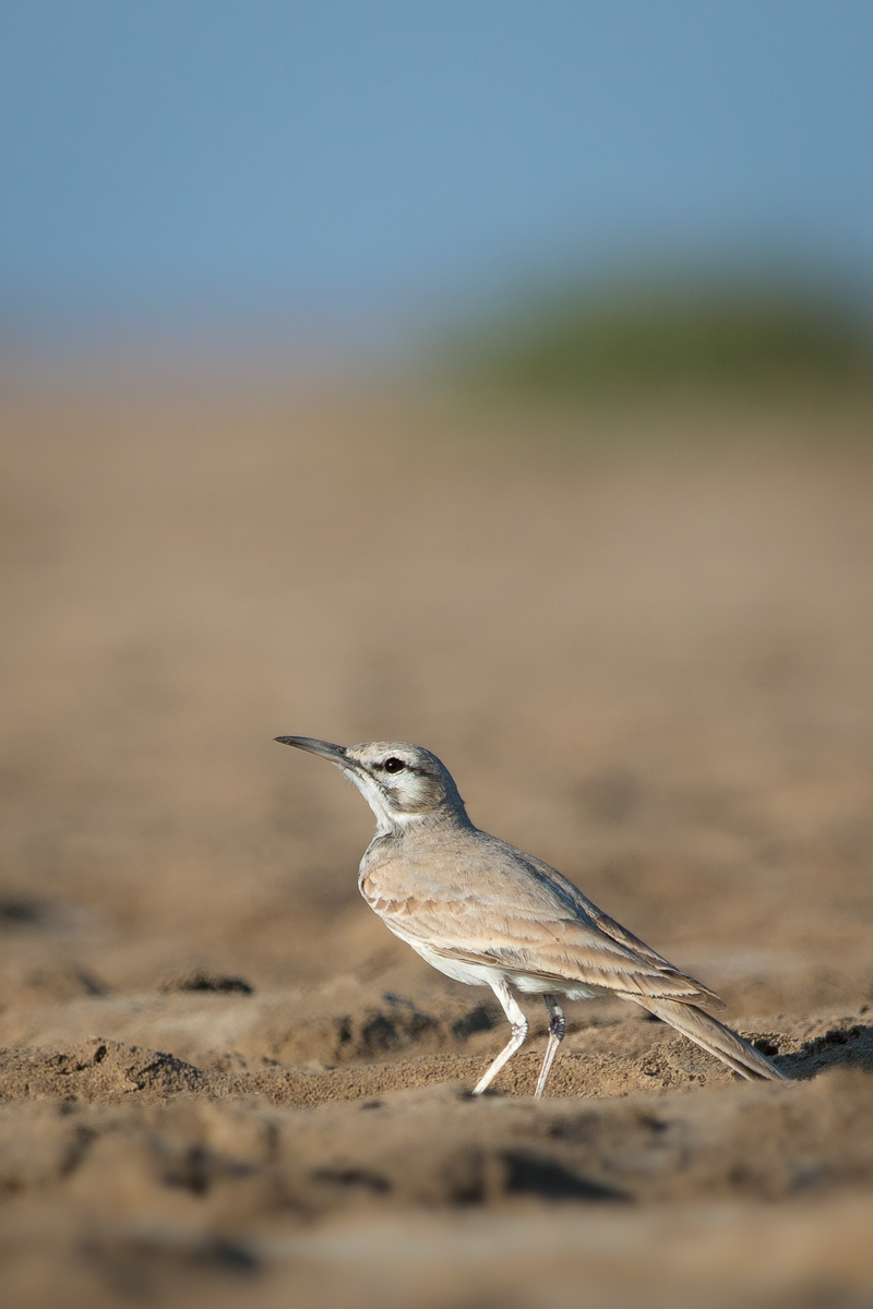 A Greater hoopoe lark at the Little Rann of Kutch